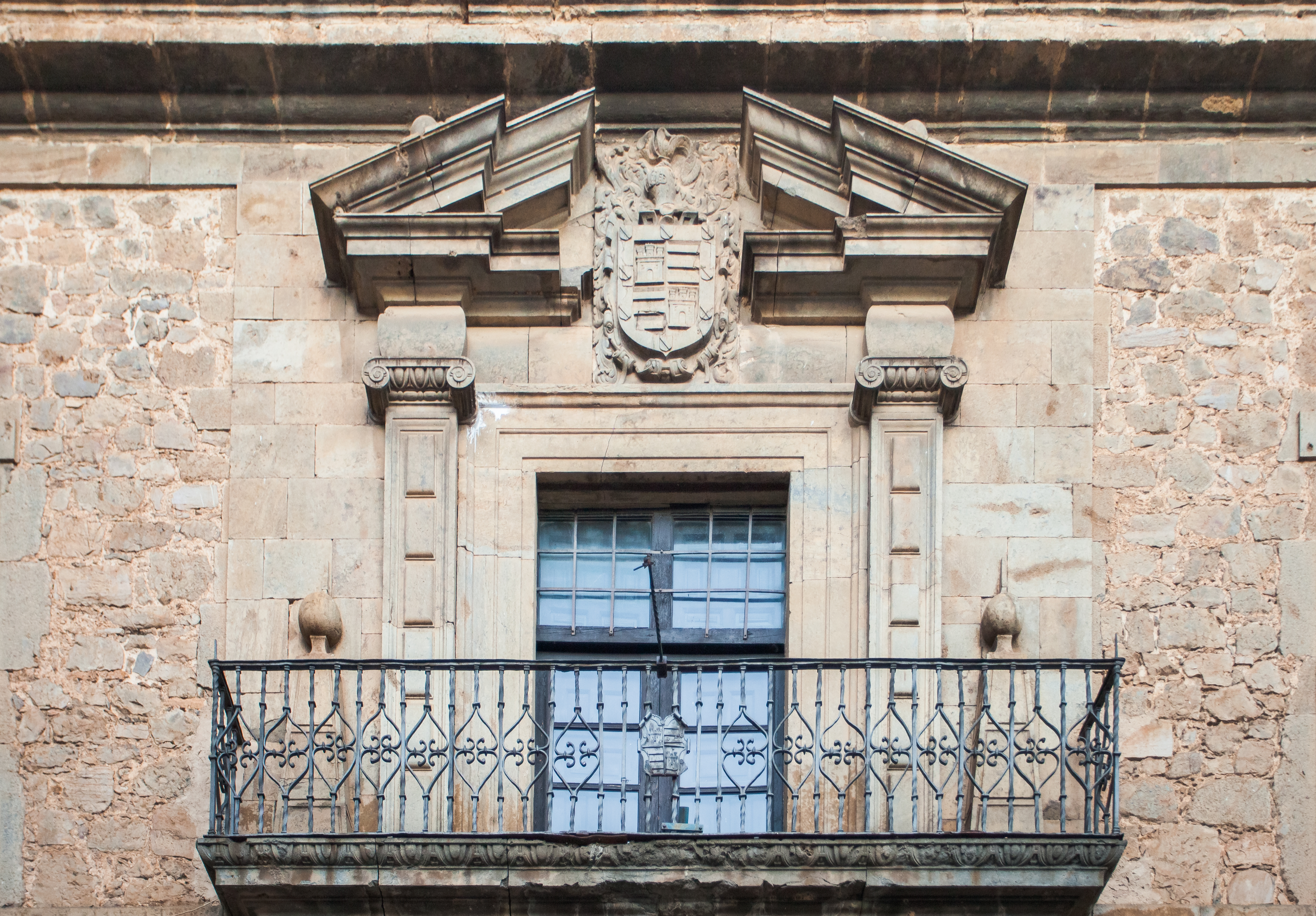 Palacio de los Castejones, Ágreda, Spain